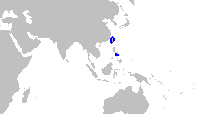 Distribution map for Squatina formosa